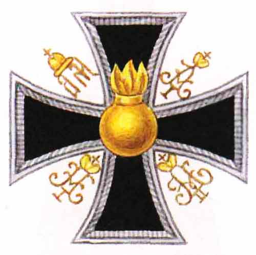 Badge of Konno-Grenadersky Guard Regiment